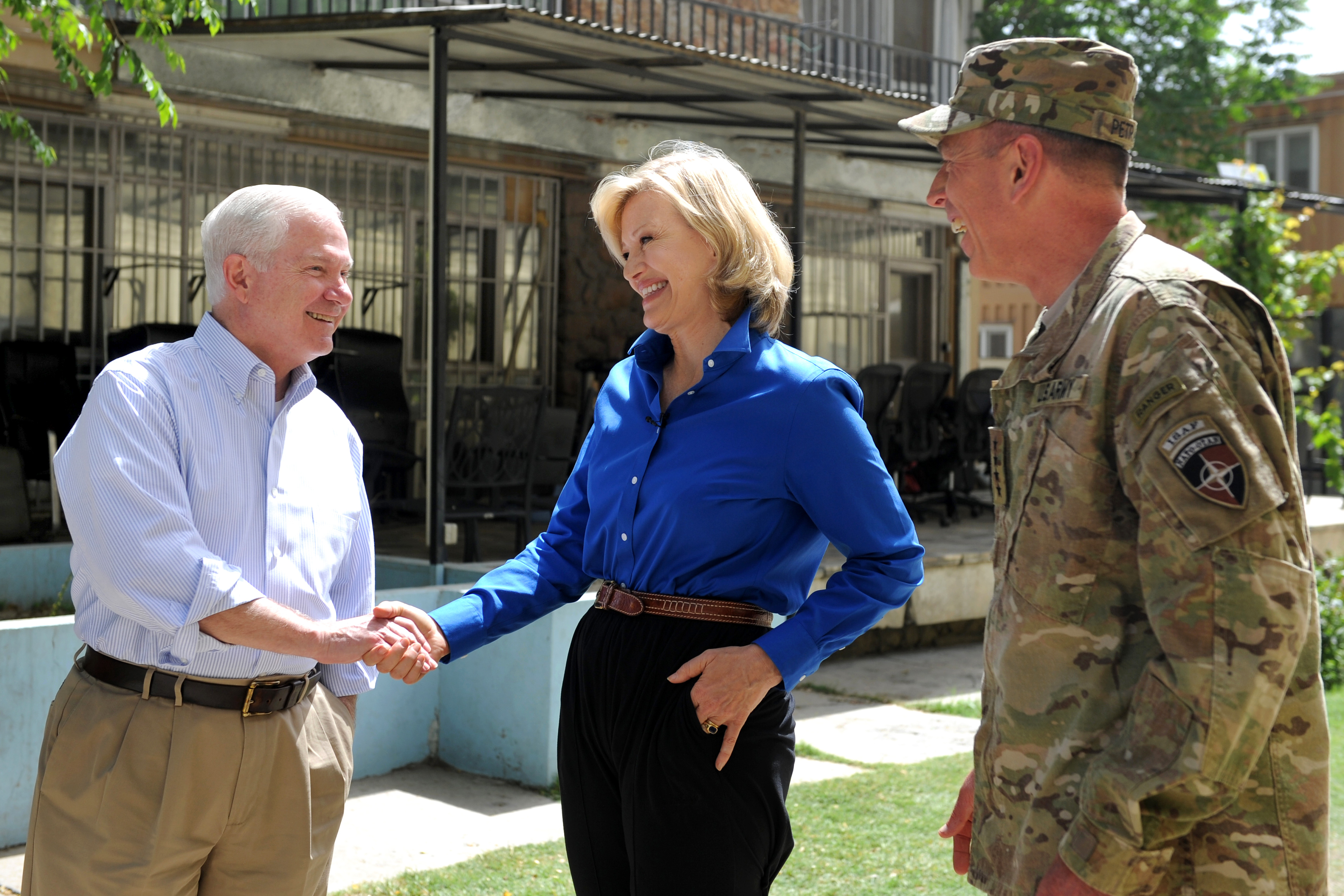 U.S. Defense Secretary Robert M. Gates, left, shakes hands with ABC News anchor Diane Sawyer after a joint interview with U.S. Army Gen. David H. Petraeus at Camp Eggers, Afghanistan, June 6, 2011. Petraeus is the commander of U.S. and international forces in Afghanistan.